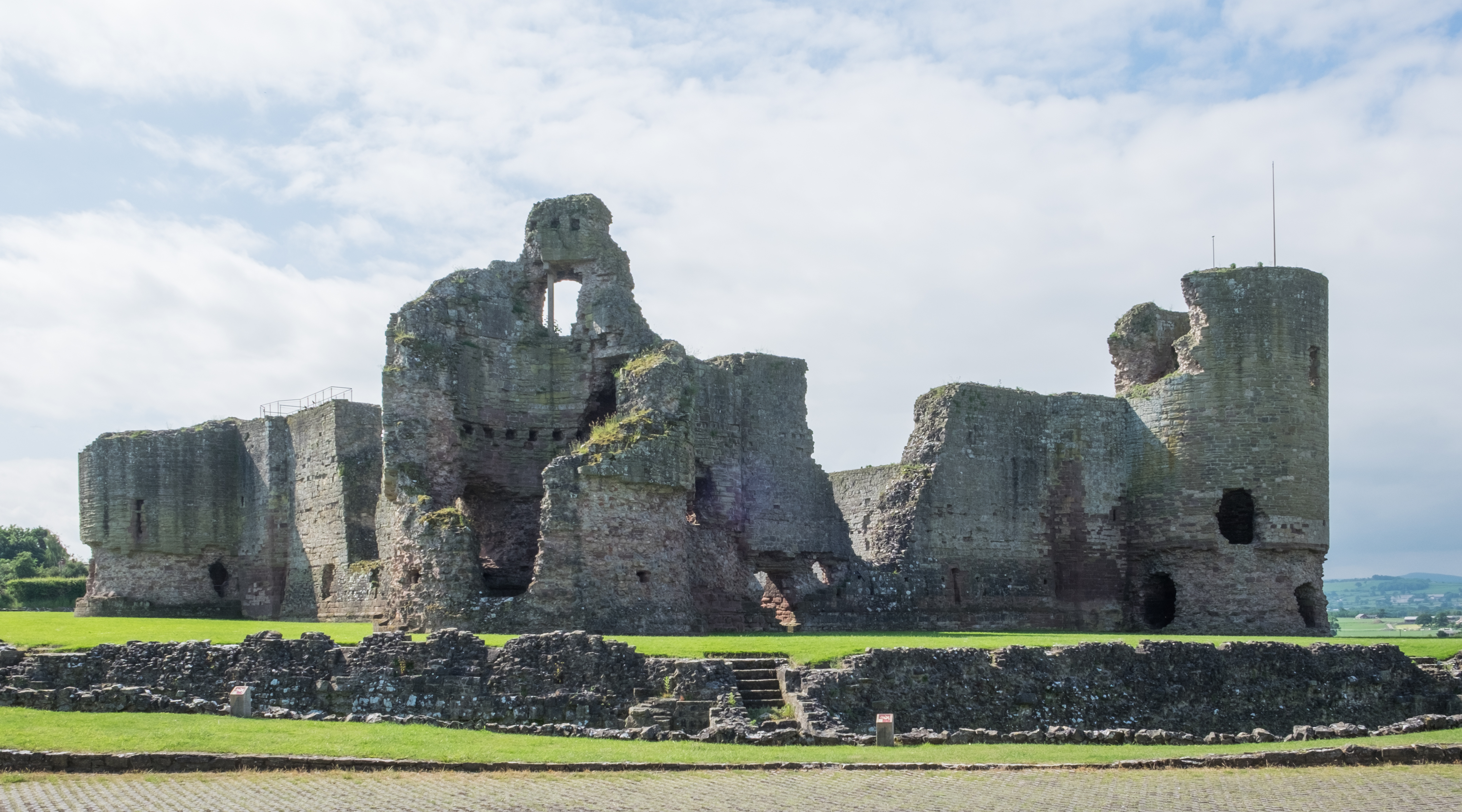 Rhuddlan Castle, Denbighshire, Wales. This 13th century castle is a grade I listed building in Wales.